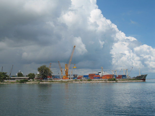 Songkhla Sea Port, view from Mueang Songkhla district.